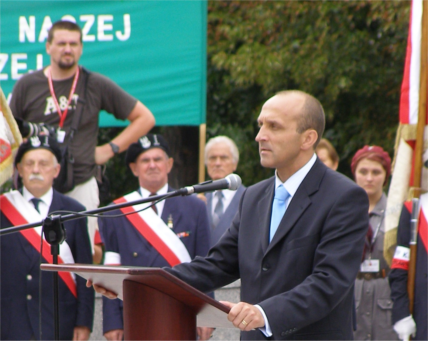 Kazimierz Marcinkiewicz during 62. anniversary of Warsaw Uprising, August 1, 2006, Warsaw (wreath laying ceremony at Home Army monument at Wiejska street).